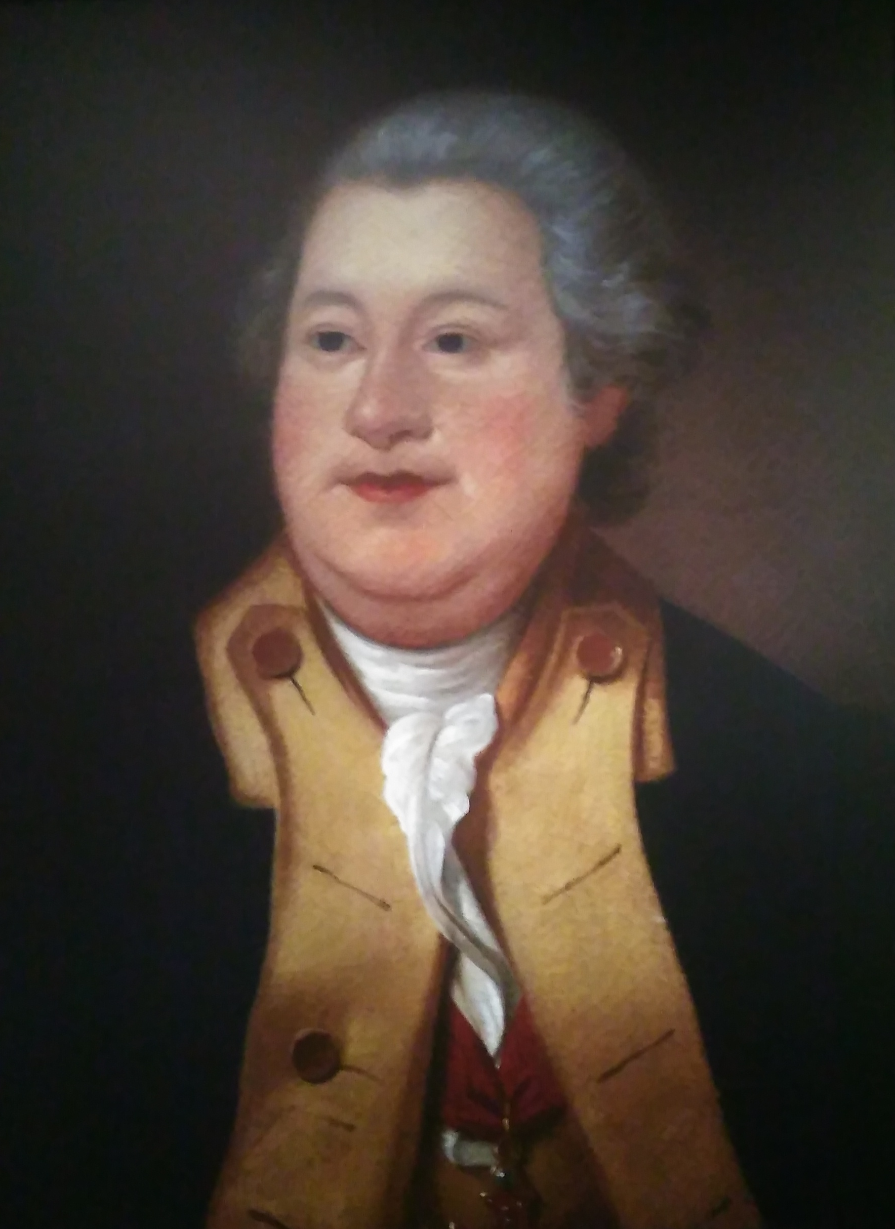 Portrait of Manuel da Maia (1677-1768), a Portuguese architect, engineer, and archivist.